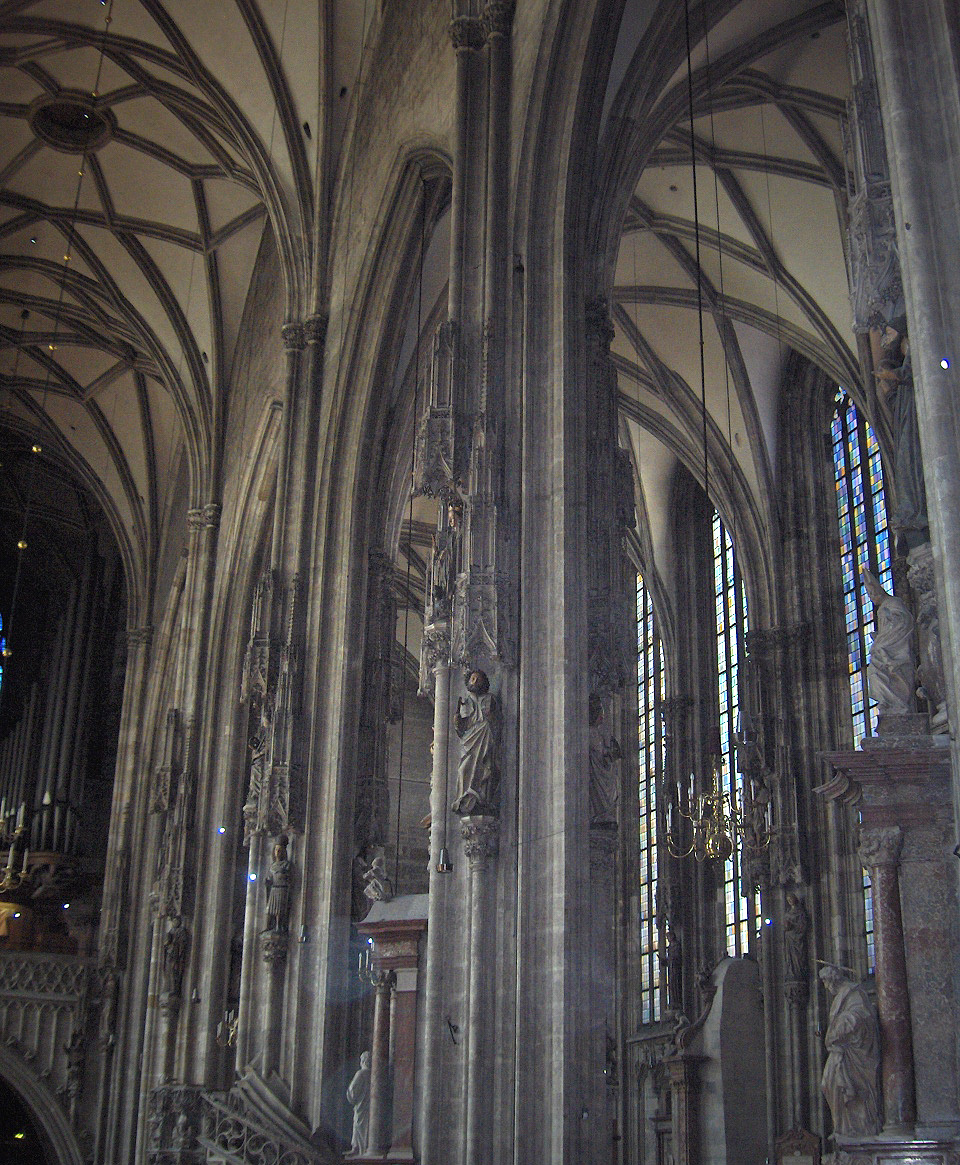 Northern aisle of the Stephansdom in Vienna, Austria